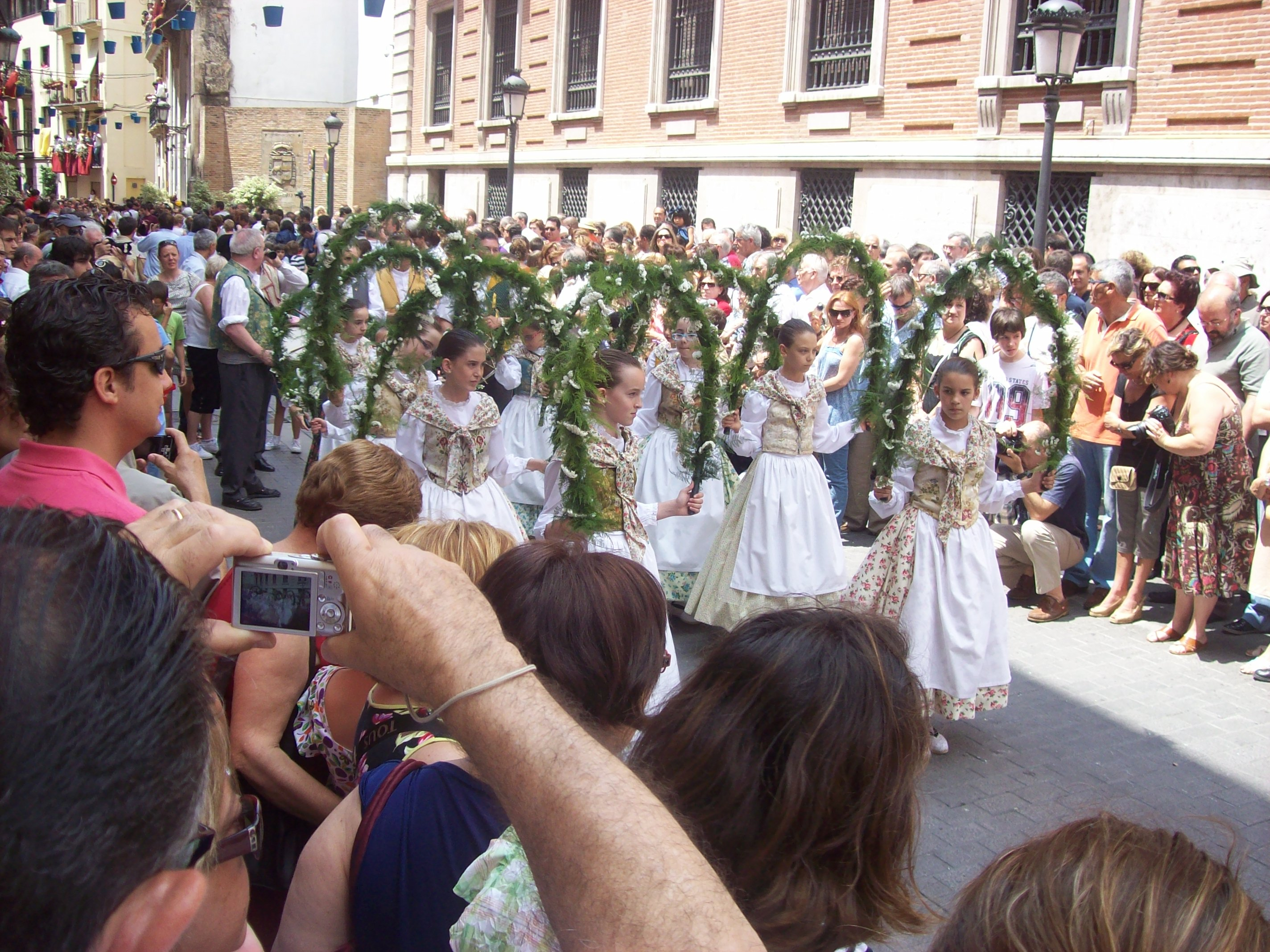 Danza de la cabalgata del convite de las fiestas del Corpus valenciano.